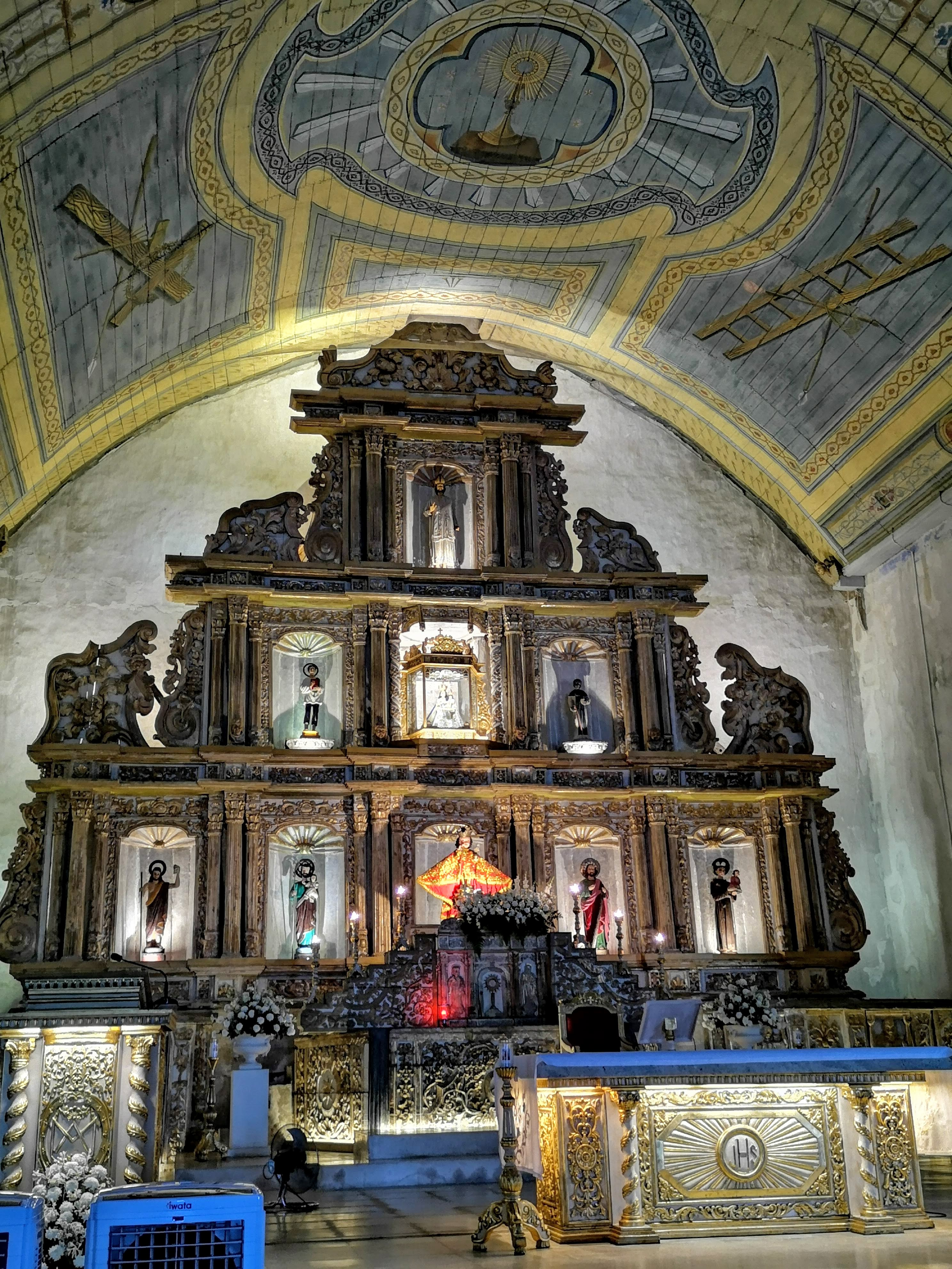 retable de l'église de Boljoon, sept 2019